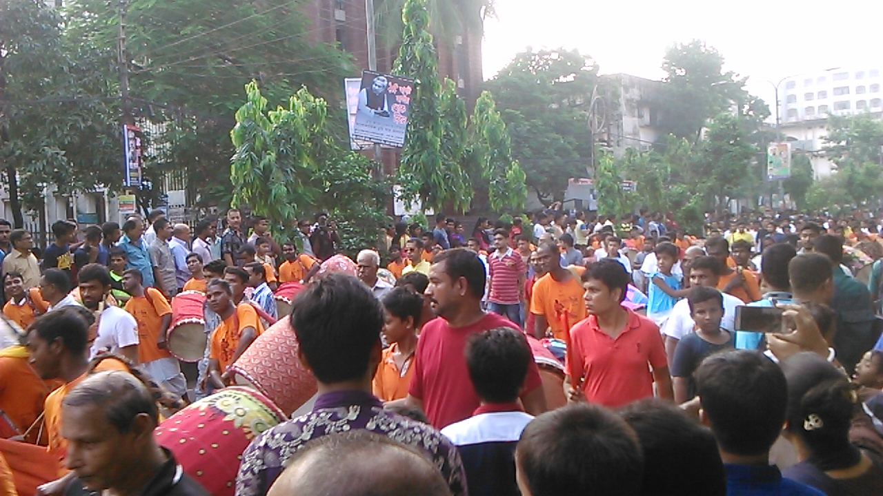 ঢাকার জন্মাষ্টমীর মিছিল